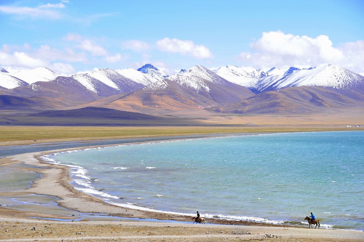 Nyenchen Tangla range. Nam Tso is a salt lake and roughly 30km by 70km ; 1920 square km big and max depth:35m at an altitude of 4718m